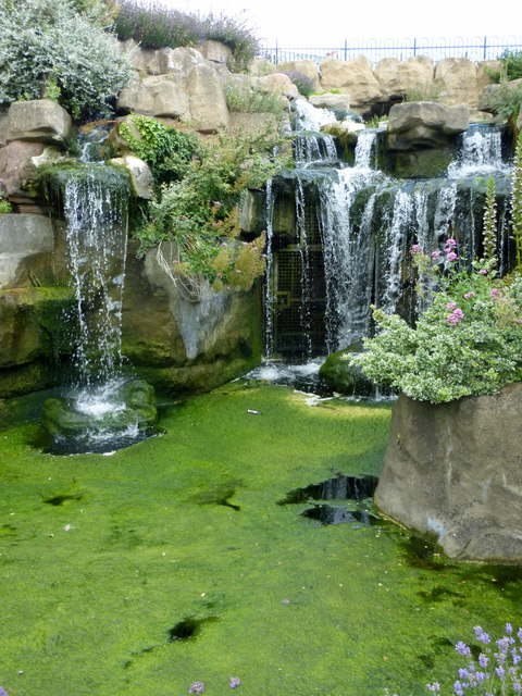 Waterfall in Albion Place Gardens, Ramsgate. Viewed from Madeira Walk.